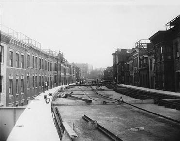 Construction of the Causeway Street Elevated on Lowell Street in September 1911. What is now 42 Lomasney Way - the last tenement building remaining from the West End - is in the left row of buildings.